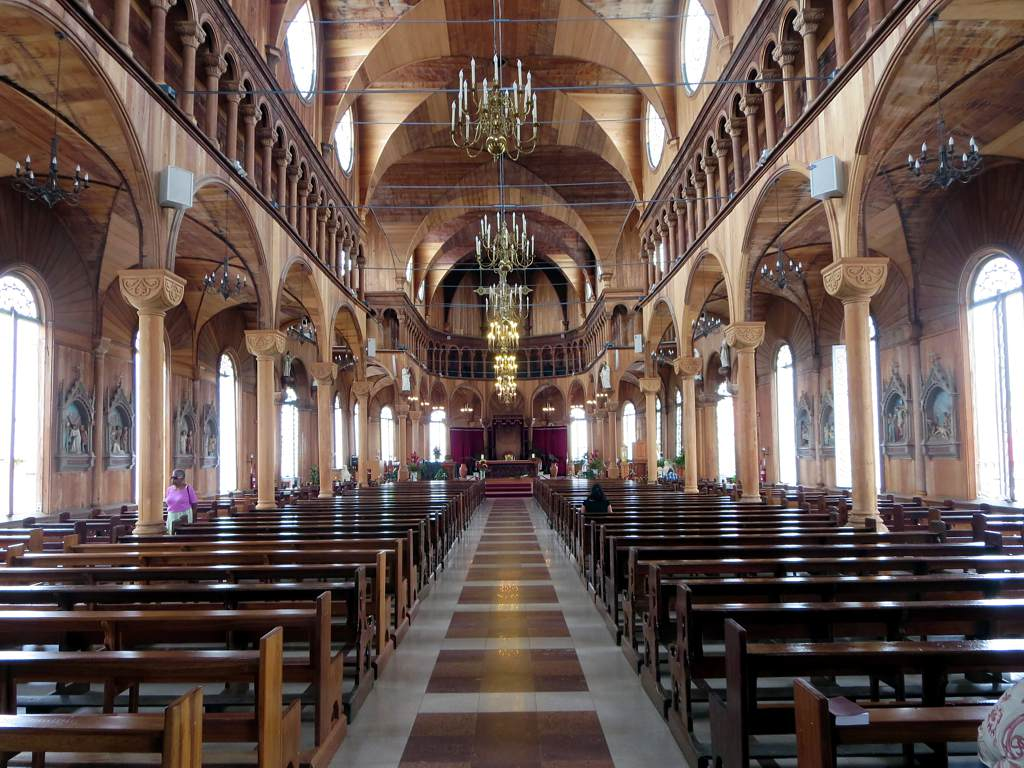 The interior of Saint Peter and Paul Catholic Cathedral in Paramaribo, Suriname